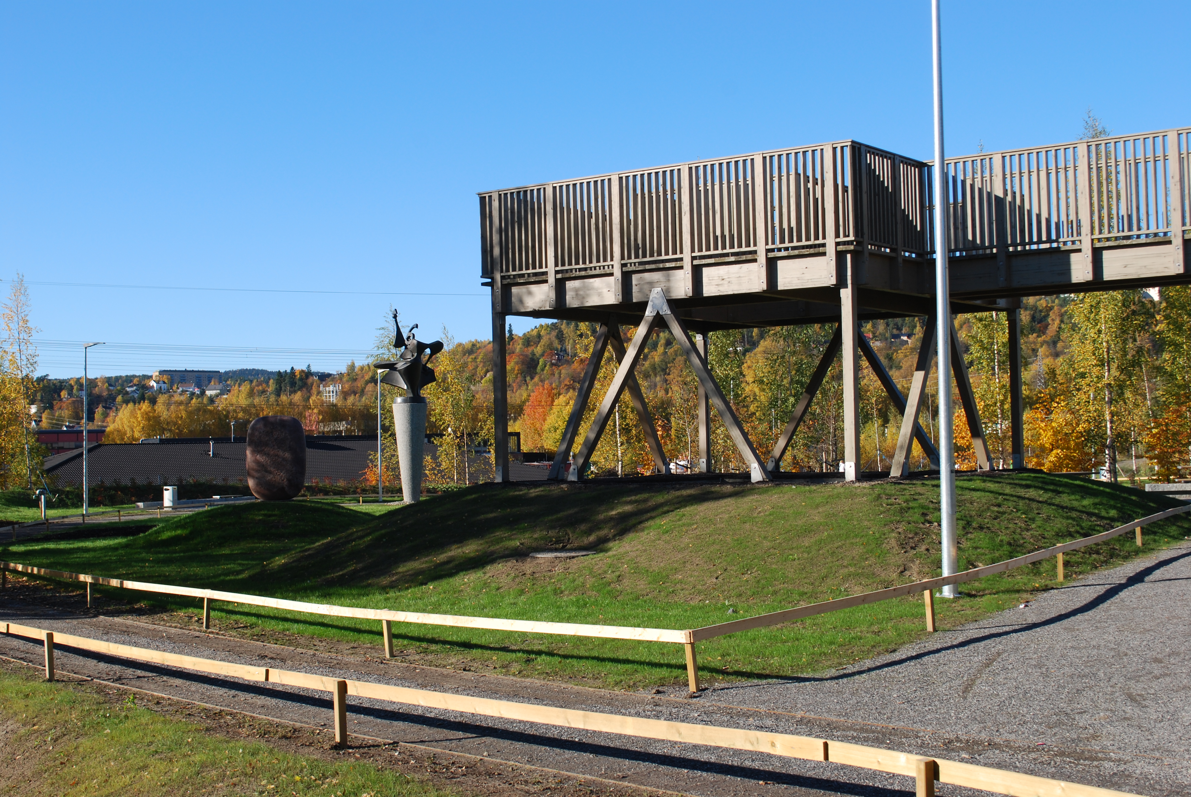 Rommensletta sculpture park, Smedstua, Oslo, with view platform